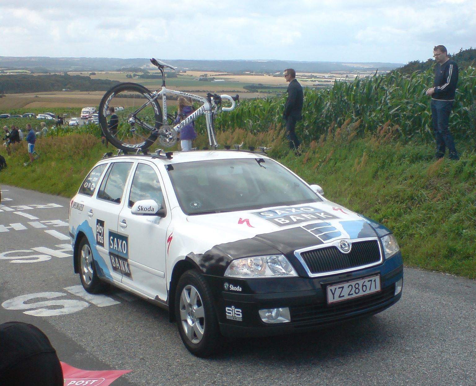 The Team Saxo Bank team car on Yding Skovhøj during stage 3 of Post Danmark Rundt 2009.